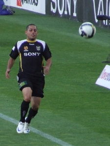 Leo Bertos chases the ball down the wing in a Wellington Phoenix Game